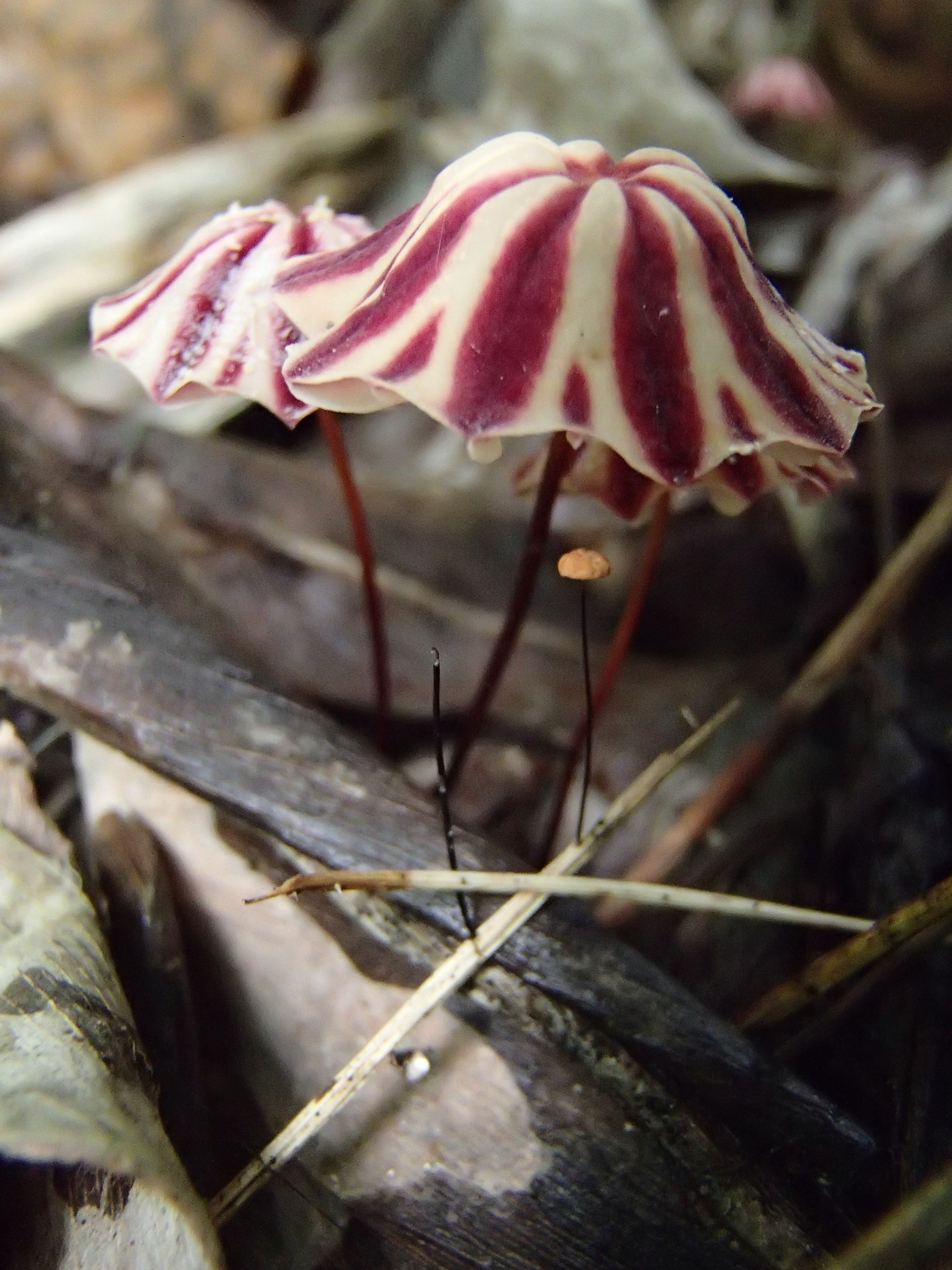 Marasmius tageticolor Image location: Cristalino Jungle Lodge, Alta Floresta, Mato Grosso, Brazil yet another beautiful south american marasmius.. Recognized by sight For more information about this, see the observation page at Mushroom Observer.